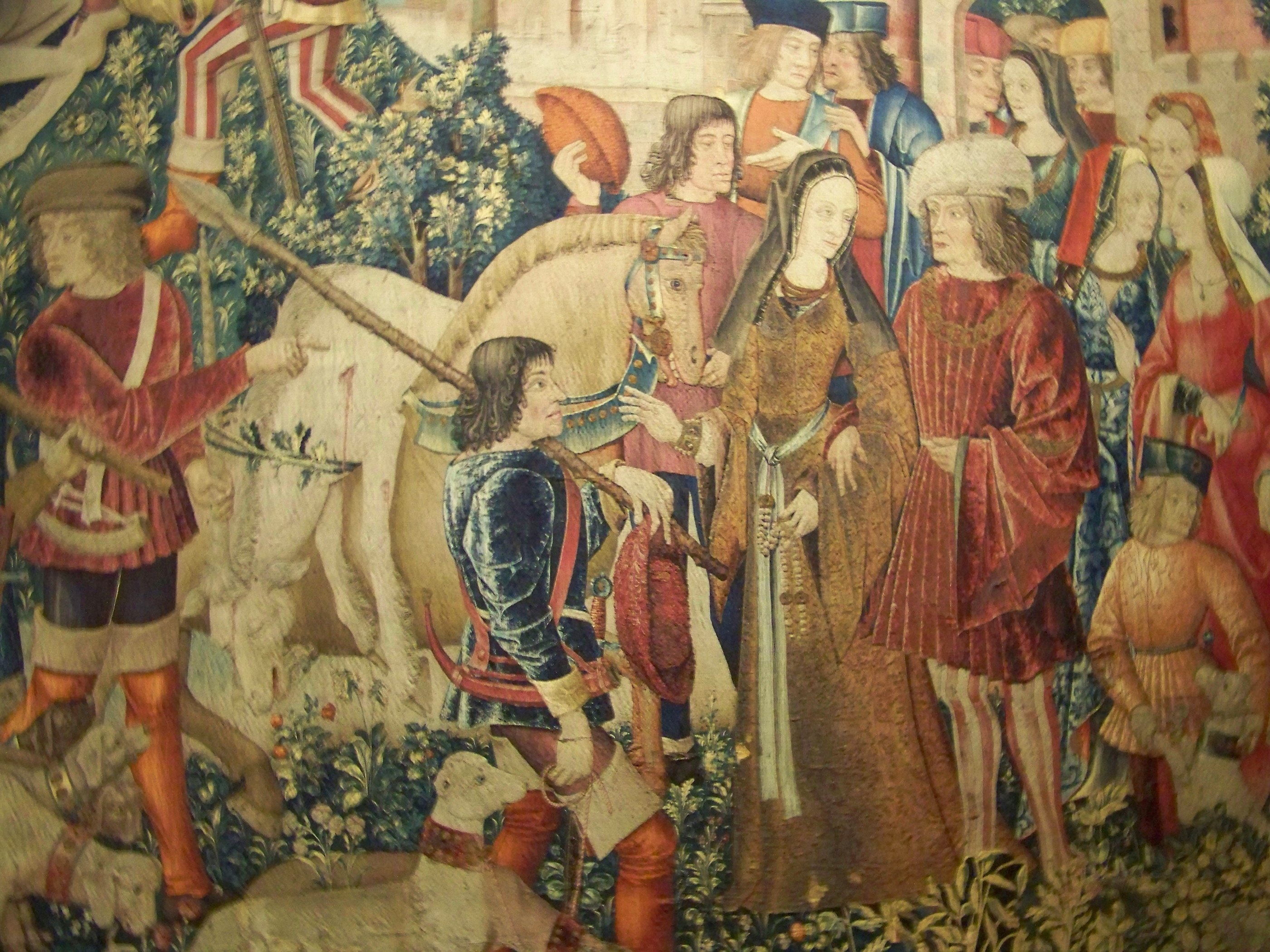 Detail of the killed unicorn